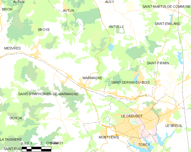 Map of French municipality